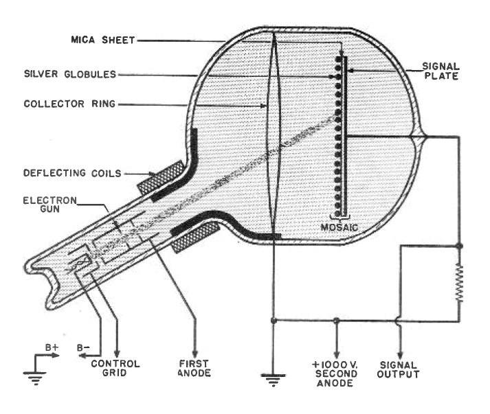 Diagram showing how the iconoscope works. The iconoscope, invented in 1933 by American electrical engineer Vladimir Zworykin, was the first practical video camera tube, and was used in early television broadcasts.